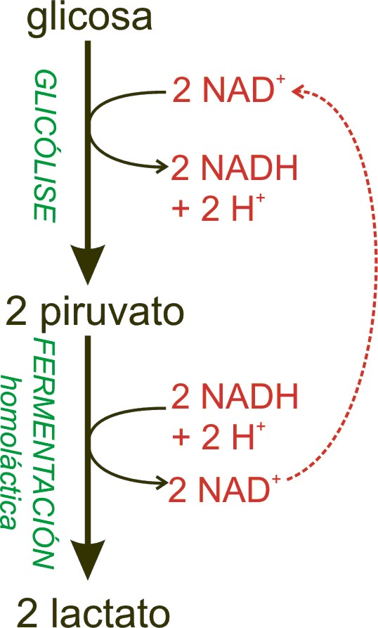 coenzyme recycling in fermentation jpg